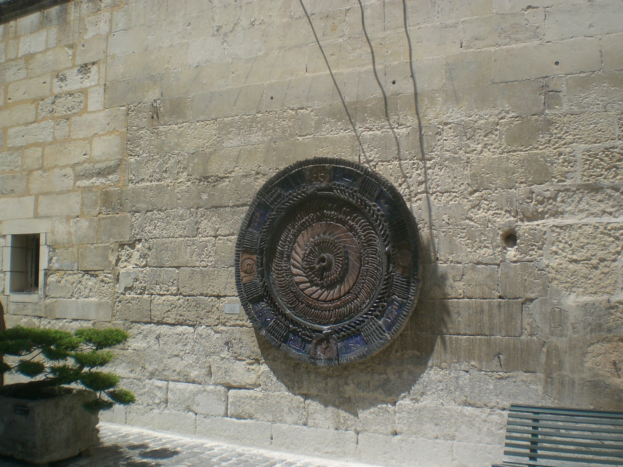 Musée l'Échevinage in Saintes